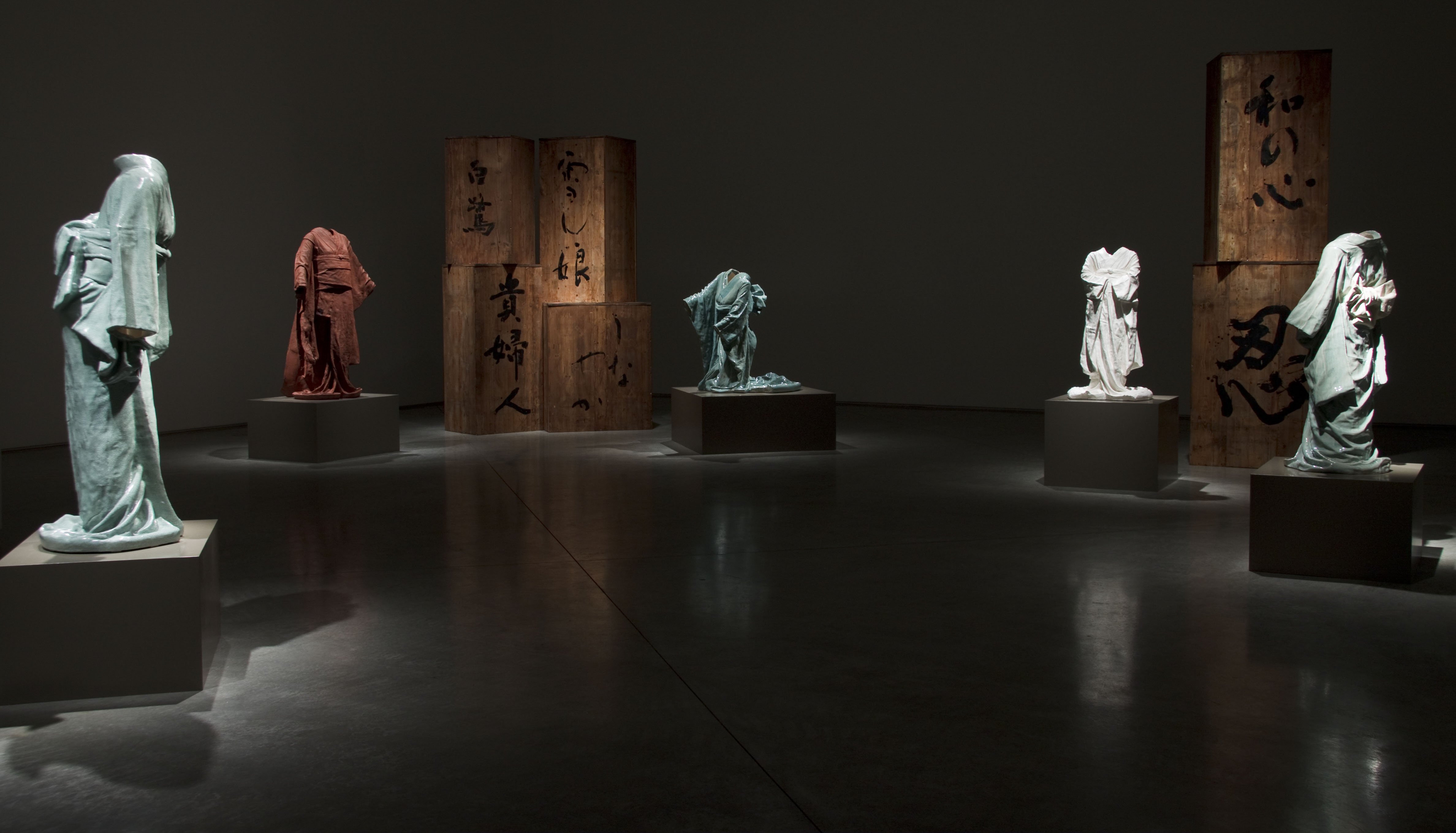 Image from Karen LaMonte's exhibit called 'Floating World'